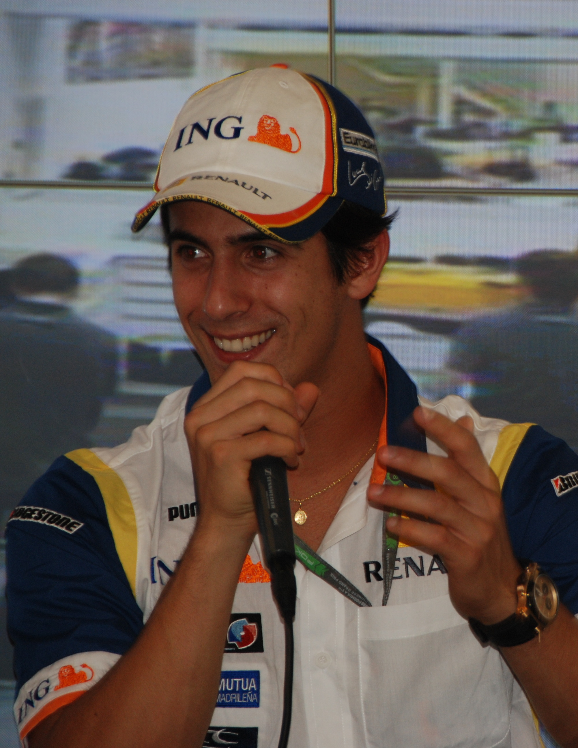 Renault F1 team test driver Lucas Di Grassi at 2008 Chinese Grand Prix